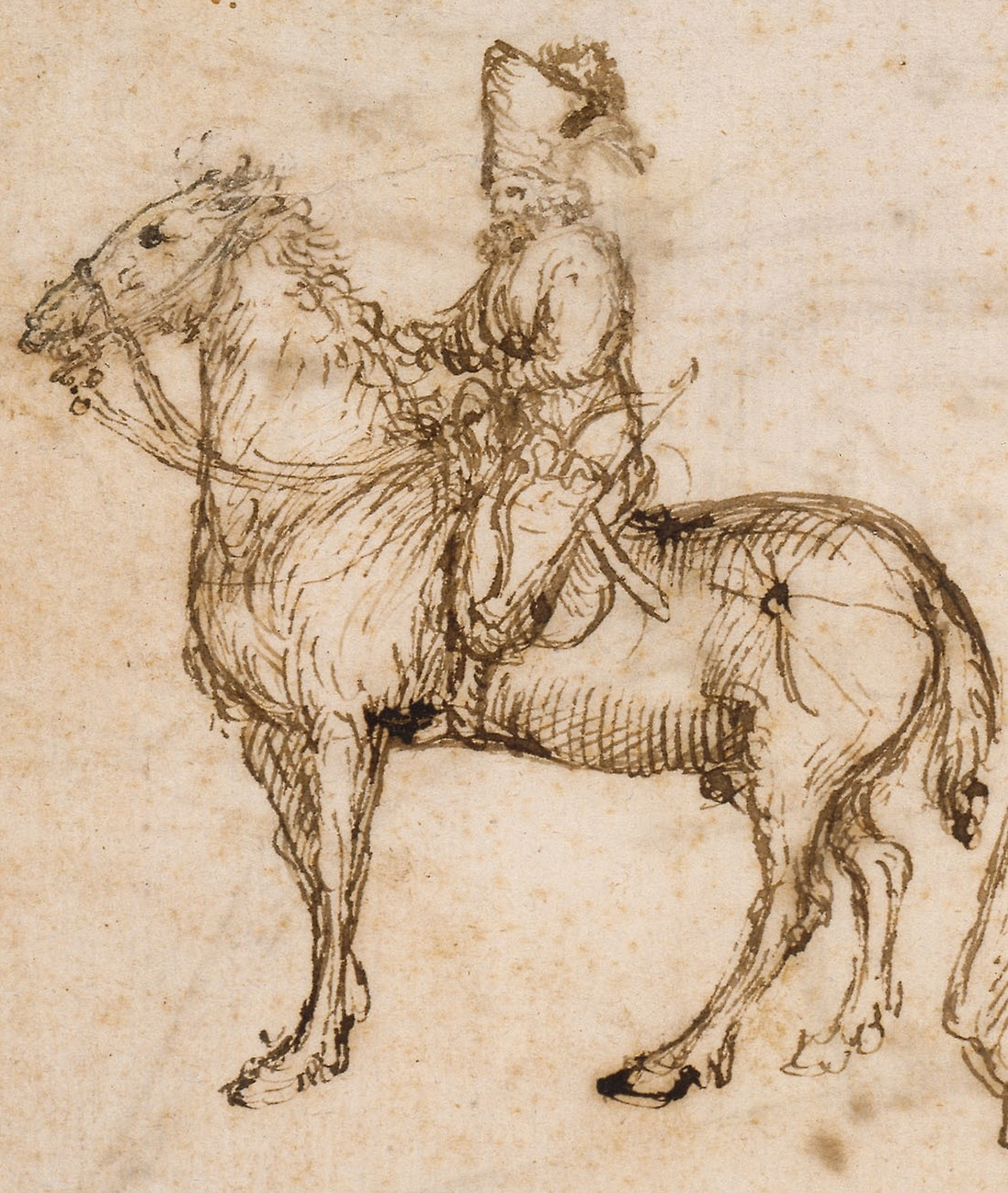 Sketches of the Emperor John VIII Palaeologus, a Monk, and a Scabbard